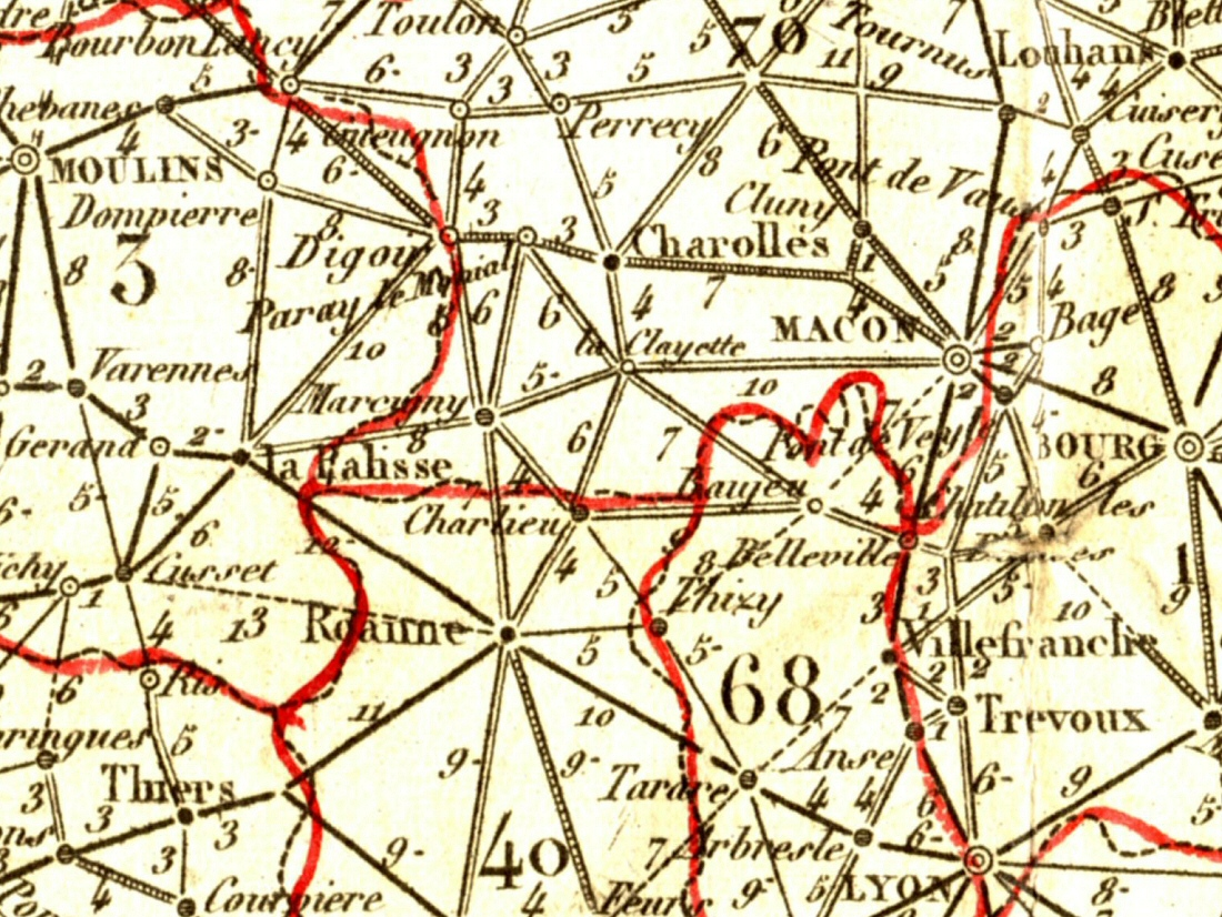 Map of Burgundy (Charolais - Brionnais) - France